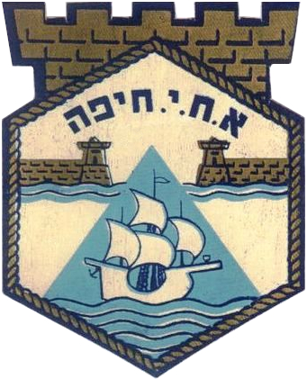 Ship emblem of INS Haifa.